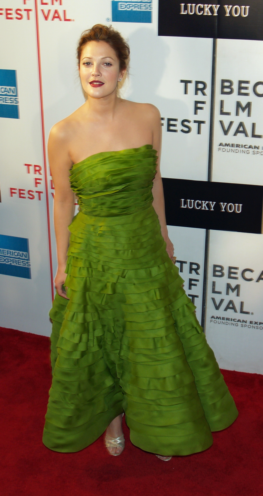 Drew Barrymore 2